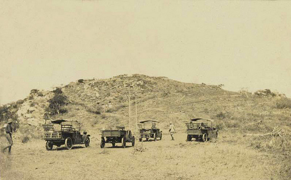 British vehicles a thhe Latema hill, right after the battle of March 11st and 12th, 1916.